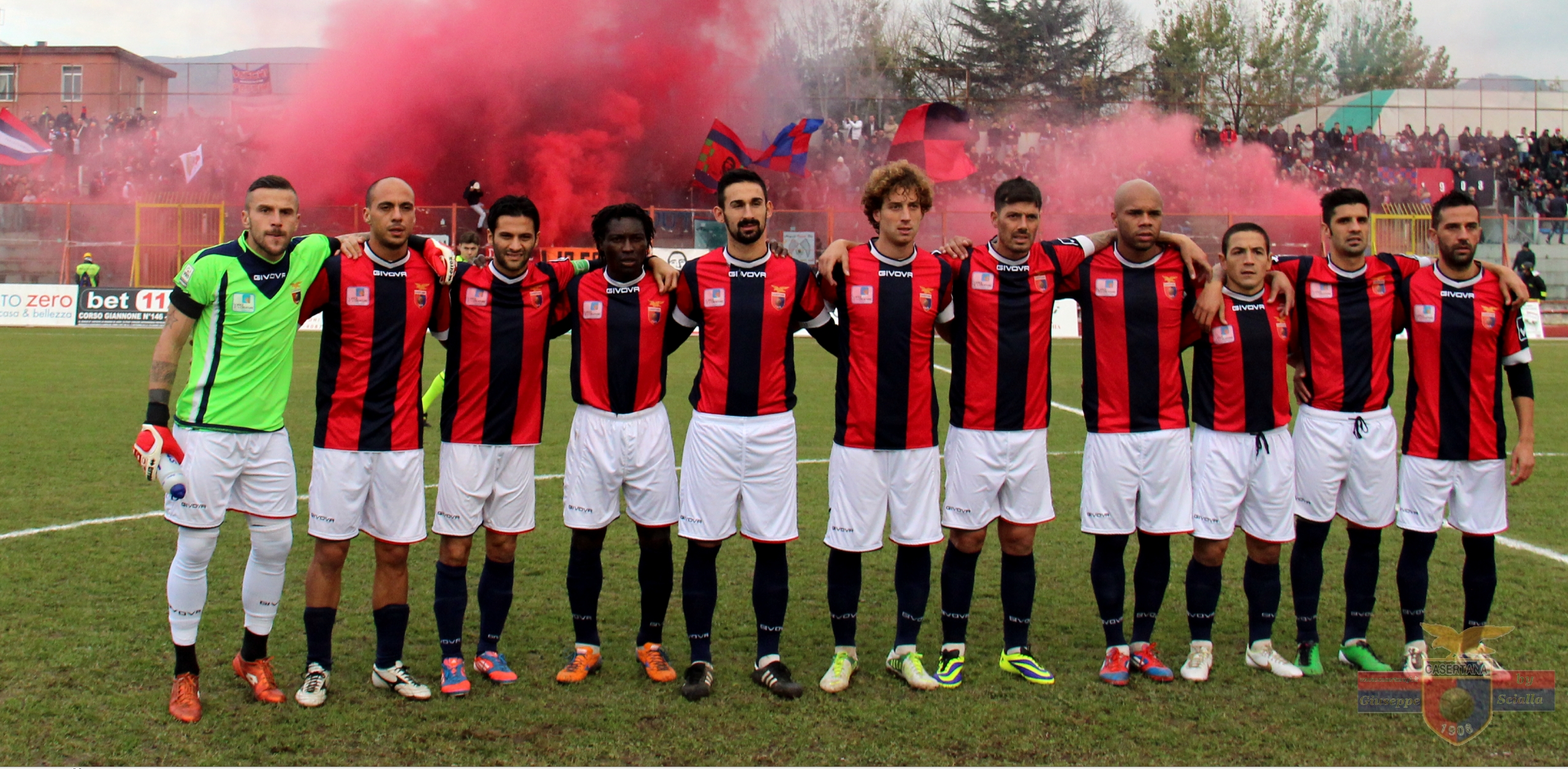 Casertana 2013-2014 Seconda divisione Italiana